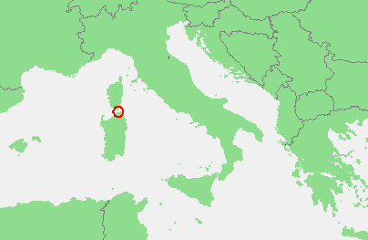 Locator map of the Strait of Bonifacio